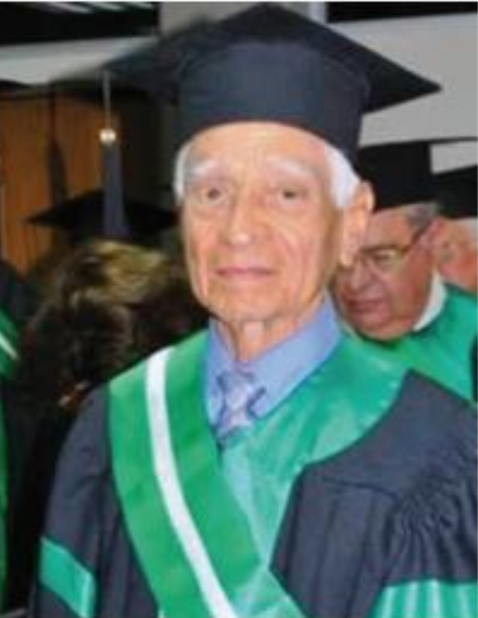 Dr. José de Jesús González Matheus, dean founder of UNERG and honored with the order 'J.J González Matheus' in Guárico, San Juan de los Morros. (2013)